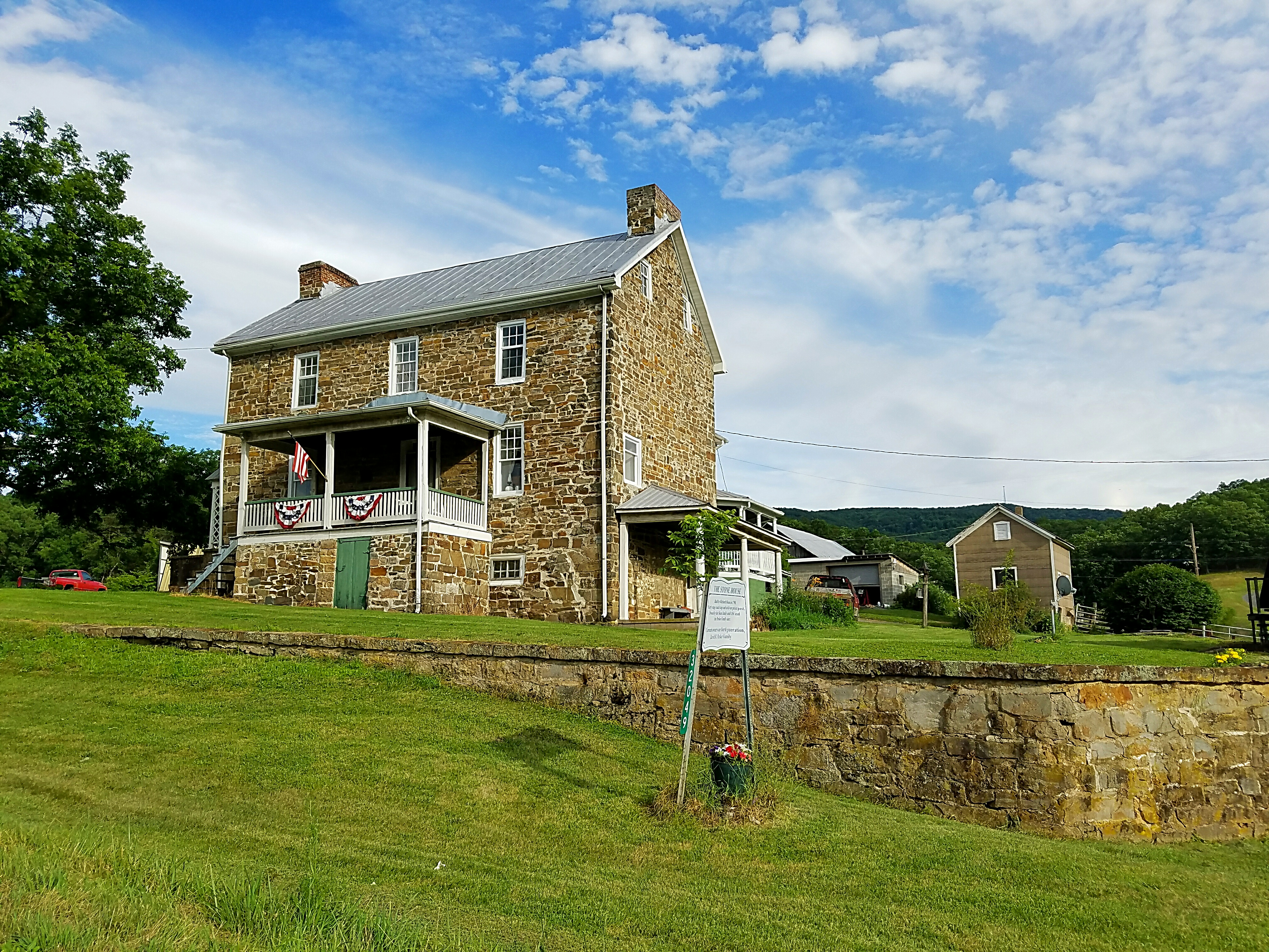 The Sloan-Parker House or Stone House, constructed in 1790 of locally quarried fieldstone for Richard Sloan, was listed on the National Register of Historic Places in 1975. It is located along the Northwestern Turnpike (U.S. Route 50) near Junction, West Virginia. Photographed by Arun Prakash of Washington, D.C. on July 2, 2016.